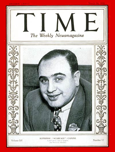 Al Capone on the cover of Time Magazine.